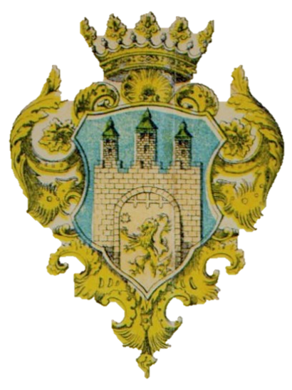 Lviv Coat of Arms used during Austrian and Austro-Hungarian Empire confirmed by the highest authorities — Emperor Joseph II of Austria, on November 6, 1789